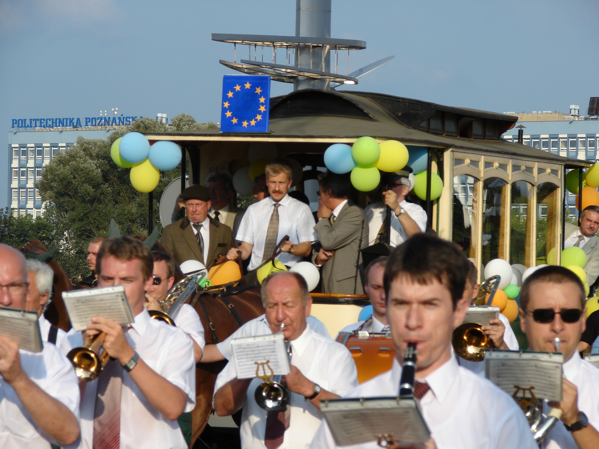 Opening of new tramway line in Poznań, president of city - Ryszard Grobelny